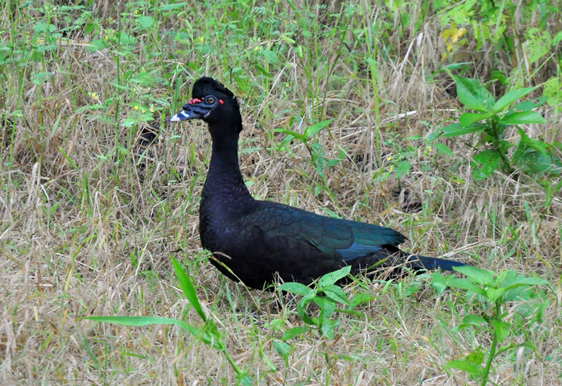 Muscovy Duck Cairina moschata at Uarini, Amazonas, Brazil.